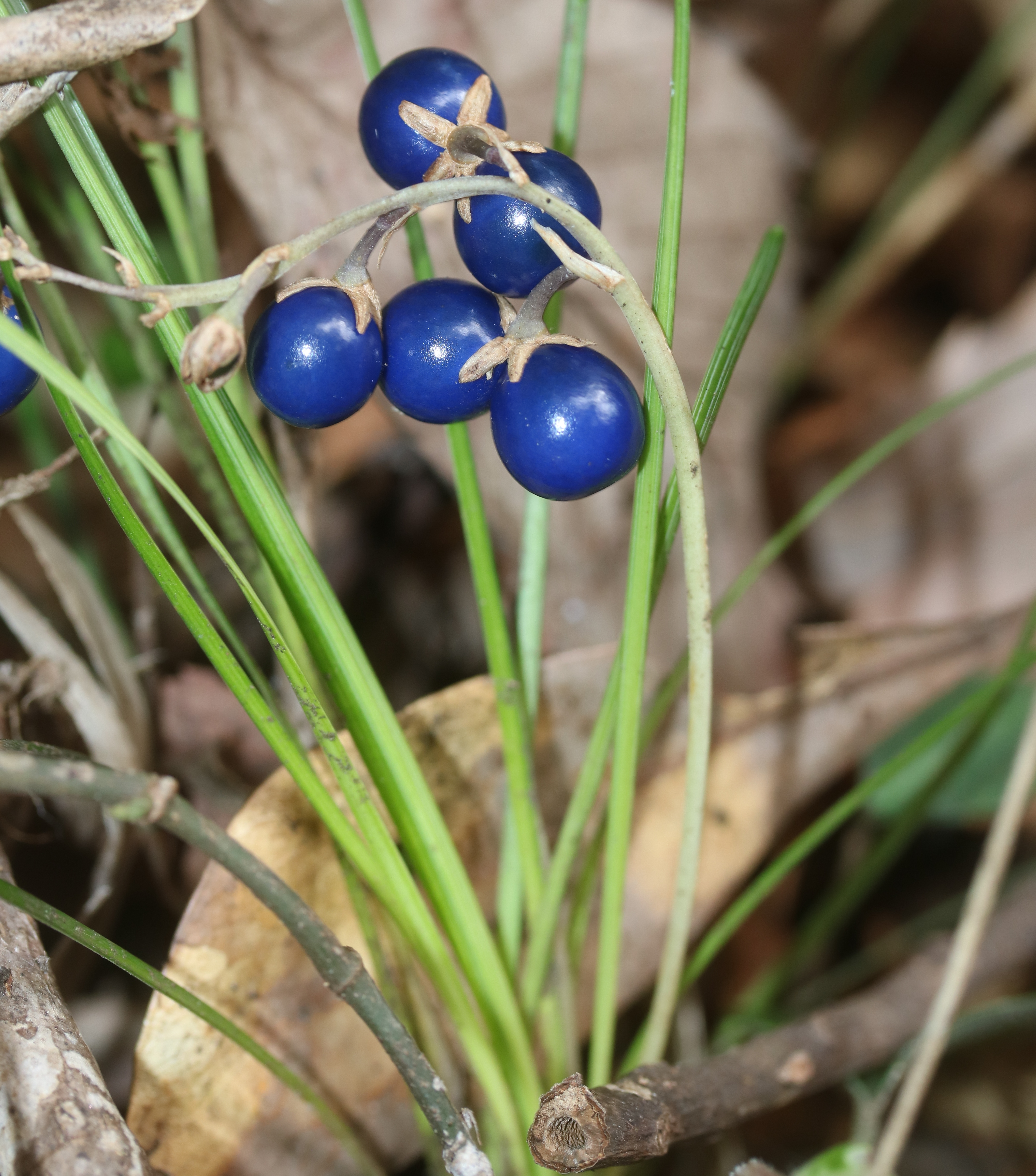 Ophiopogon japonicus in Tahara, Aichi Prefecture, Japan.